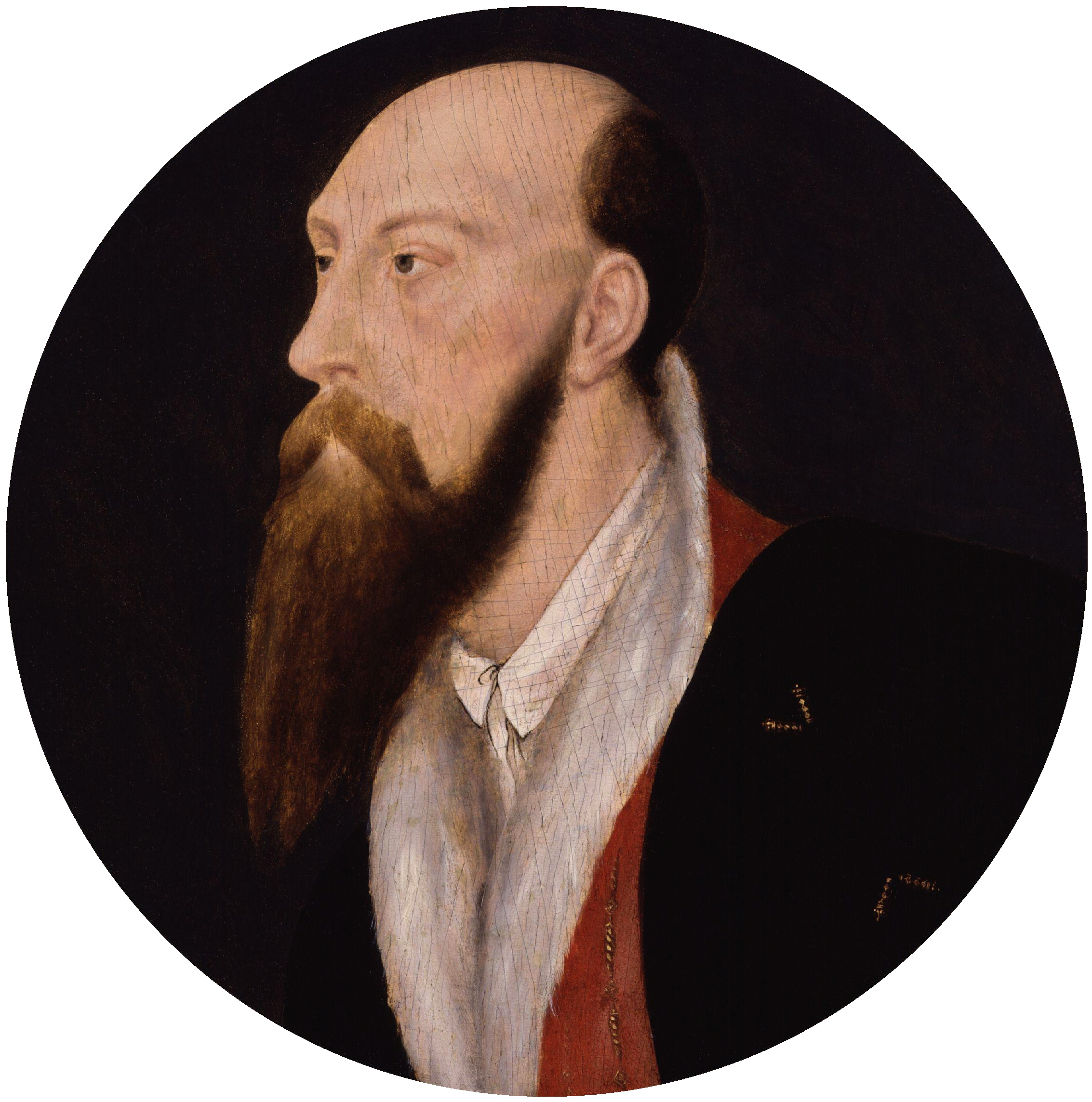 Portrait of Sir Thomas Wyatt. Oil on panel, 31.7 cm diameter, National Portrait Gallery, London. This oil portrait of Wyatt in a medallic profile composition derives from a lost drawing or painting by Hans Holbein the Younger of about 1540. Holbein's woodcut for Leland's Naenia presumably follows the original version. Four 16th-century copies by other hands survive, of which this is one of two at the National Portrait Gallery (for the other, see "Other versions" below). Thomas Wyatt (1503?–42) was a diplomat and a gifted poet who introduced the Italian sonnet form to England. He was arrested after the fall of Anne Boleyn, whom he had admired in poetry, but he recovered to become ambassador to the Emperor Charles V before being arrested again in 1541. Holbein also designed goldsmiths' work for Wyatt. References Susan Foister, Holbein in England, London: Tate, 2006, ISBN 1854376454, p. 56. K. T. Parker, The Drawings of Hans Holbein at Windsor Castle, Oxford: Phaidon, 1945, OCLC 822974, p. 54. Roy Strong, Tudor and Jacobean Portraits, London: HMSO, 1969, p. 339.